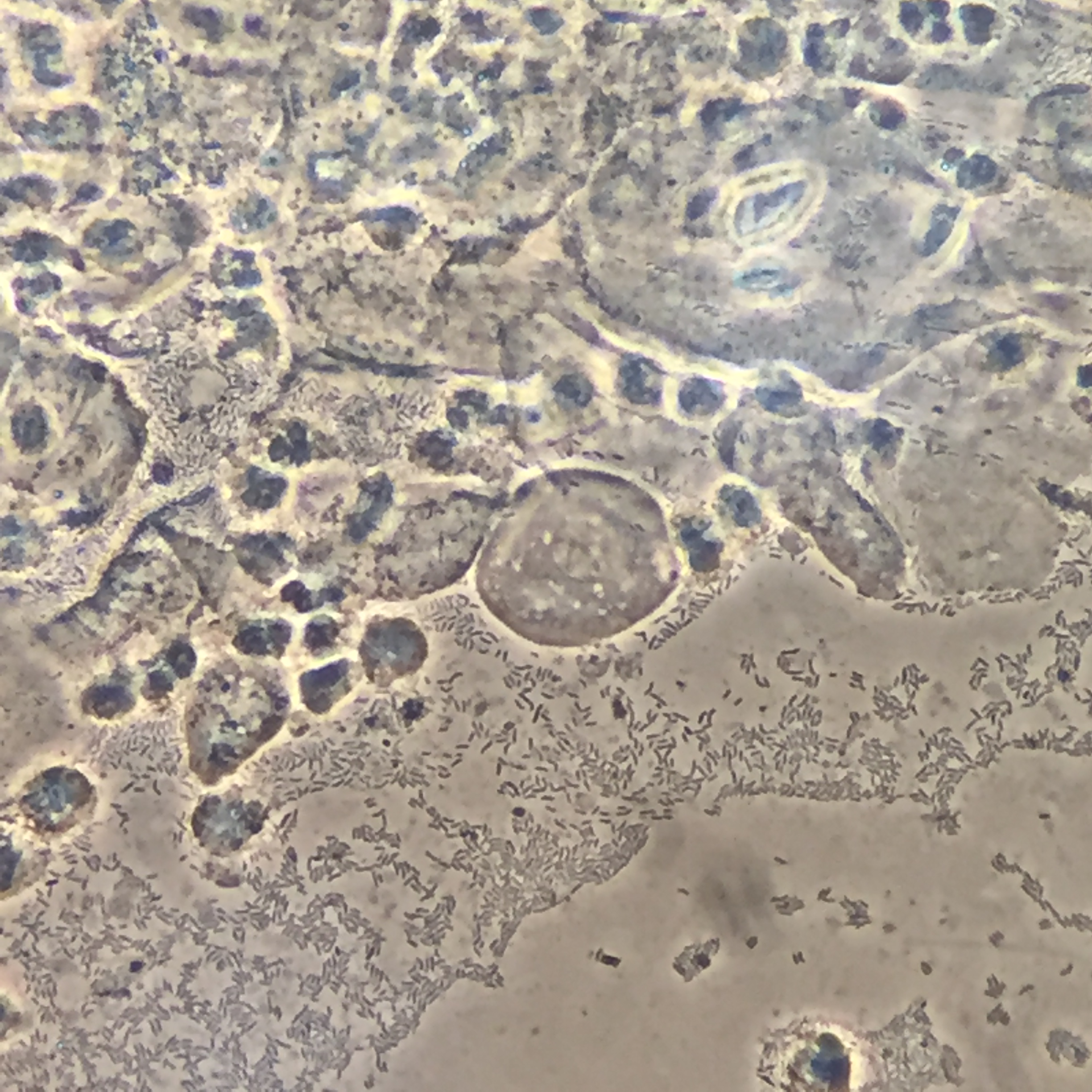 Aerobic vaginitis (Pregnant woman, 14 weeks)